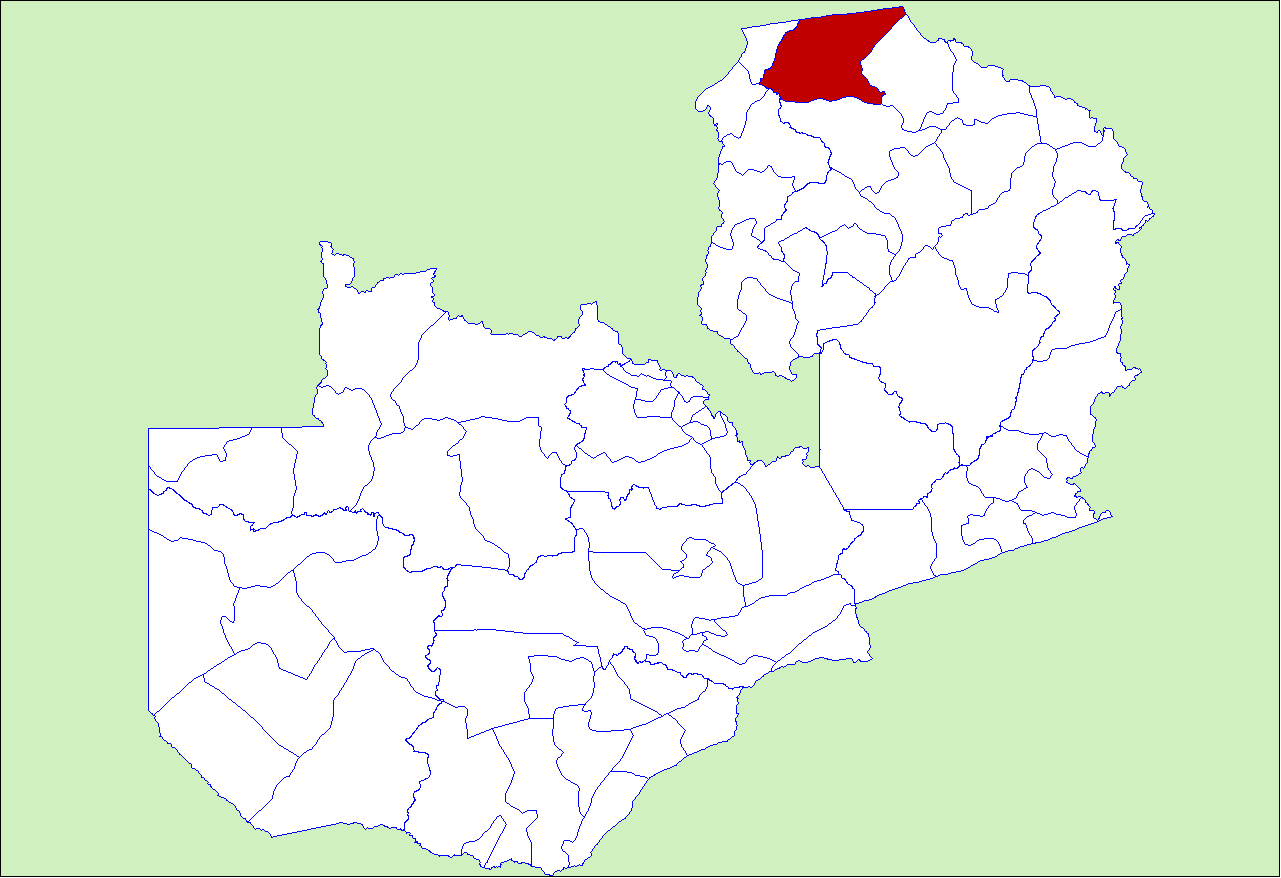 District locator in Zambia